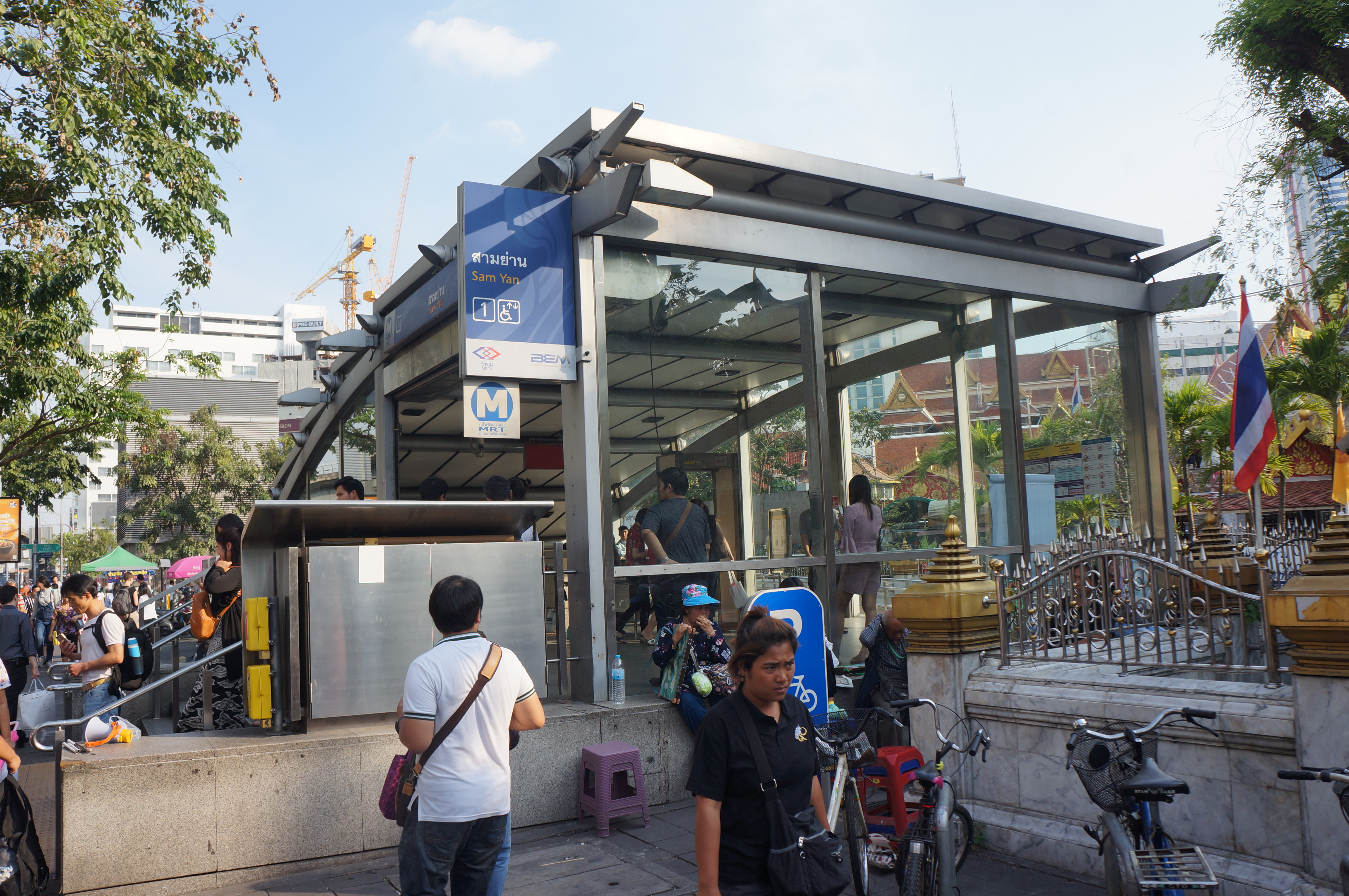 201701 Exit 1 of Sam Yan Station